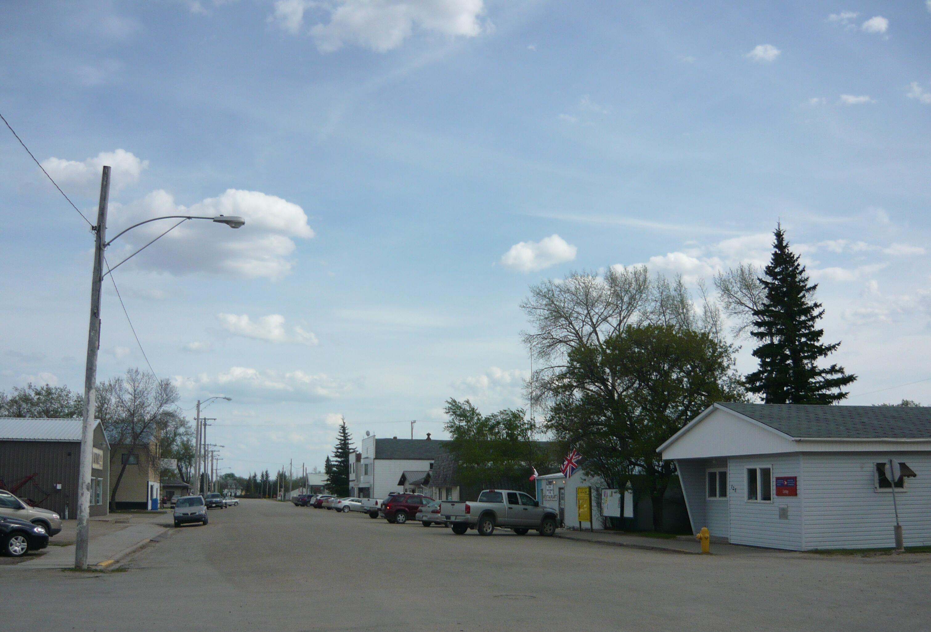 Aspen Street (at intersection of 2nd Avenue). Aspen Street is the main business street of Leroy, Saskatchewan, Canada.